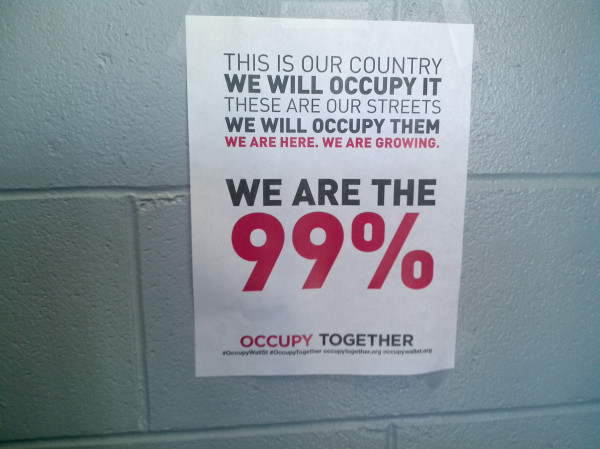 A "We Are The 99%" poster created by an Occupy Wall Street group.